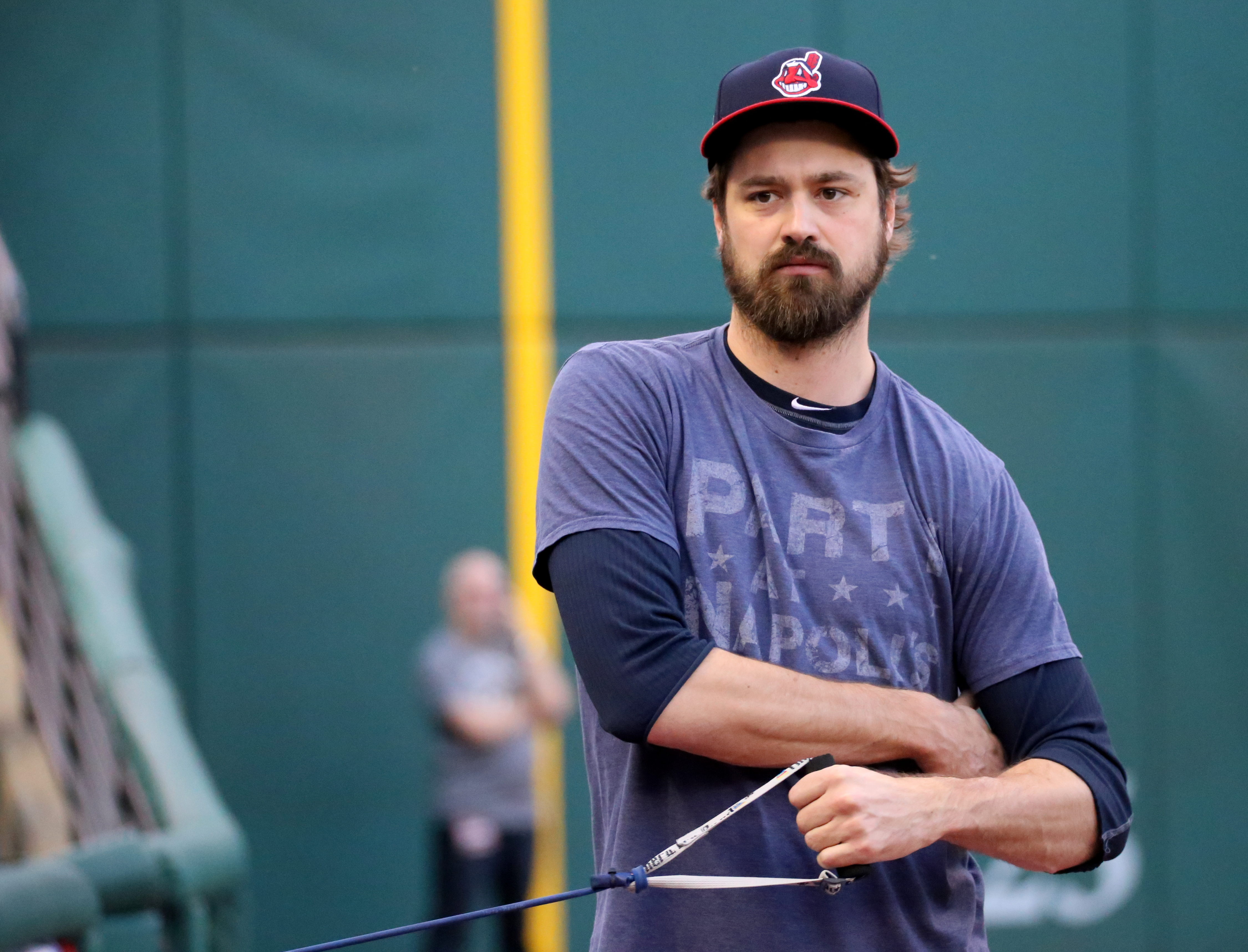 Indians reliever Andrew Miller stretches before Sunday's workout at Progressive Field.